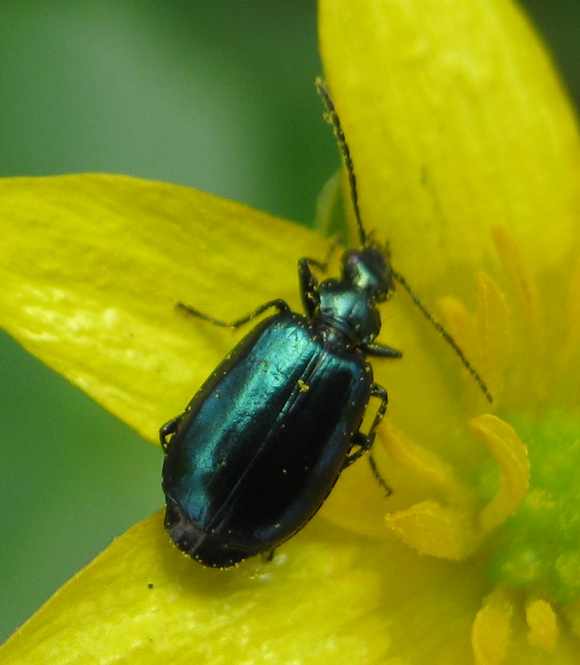 Carabid beetle, Lebia viridis, on lesser celandine. Briar Bush Nature Center, Montgomery County, Pennsylvania, USA.